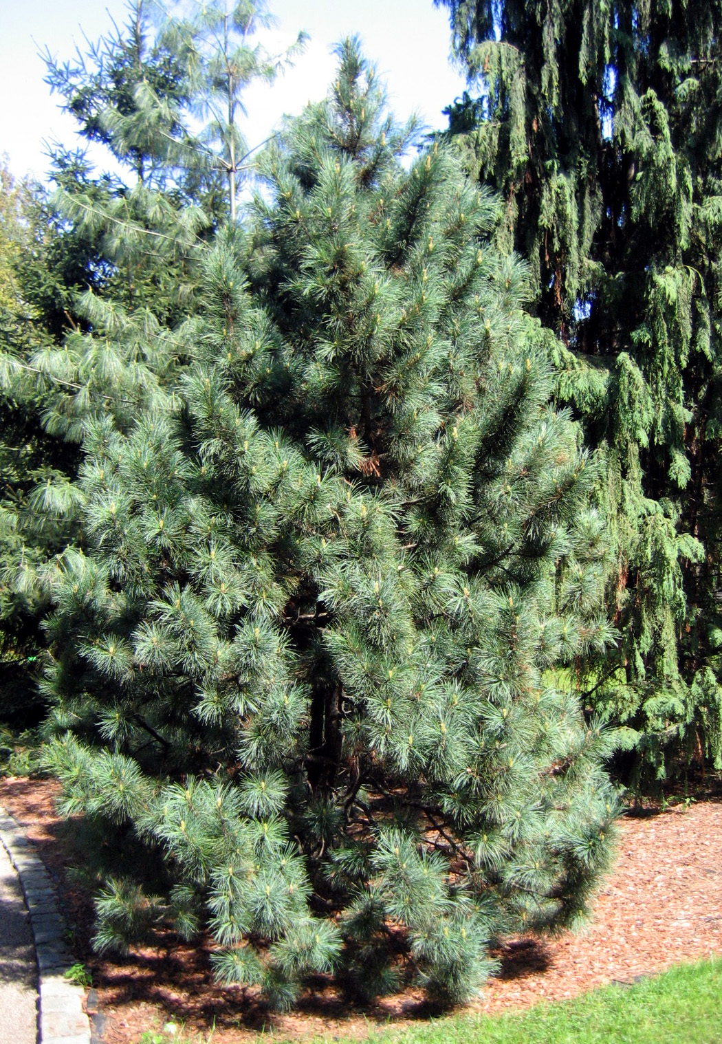 Korean Pine (Pinus koraiensis), cultivated in Wrocław University Botanical Garden, Wrocław, Poland.